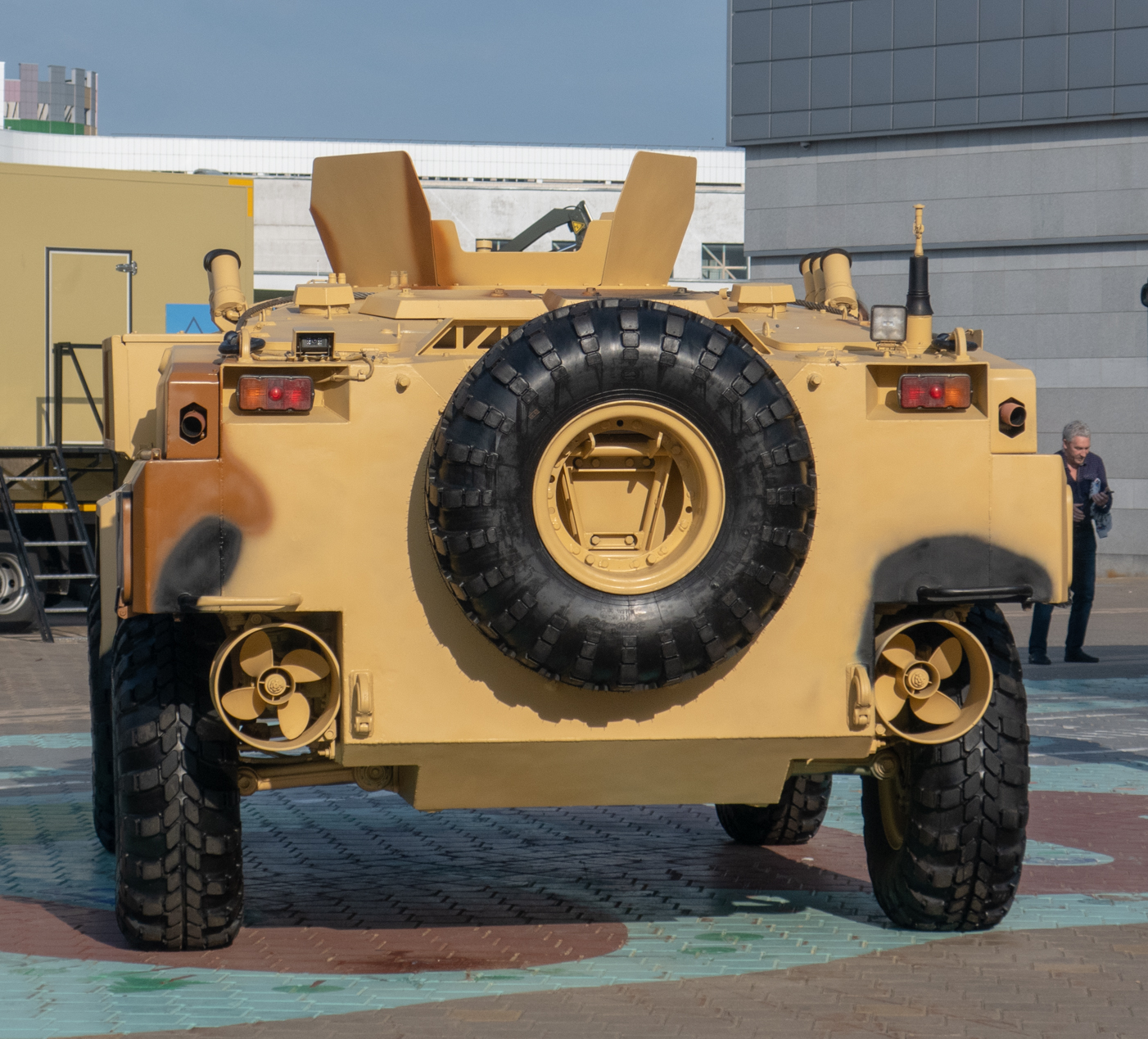 Caiman (Kayman) armoured car. Photo taken at Milex-2019 arms and military machinery exhibition (Minsk, Belarus)